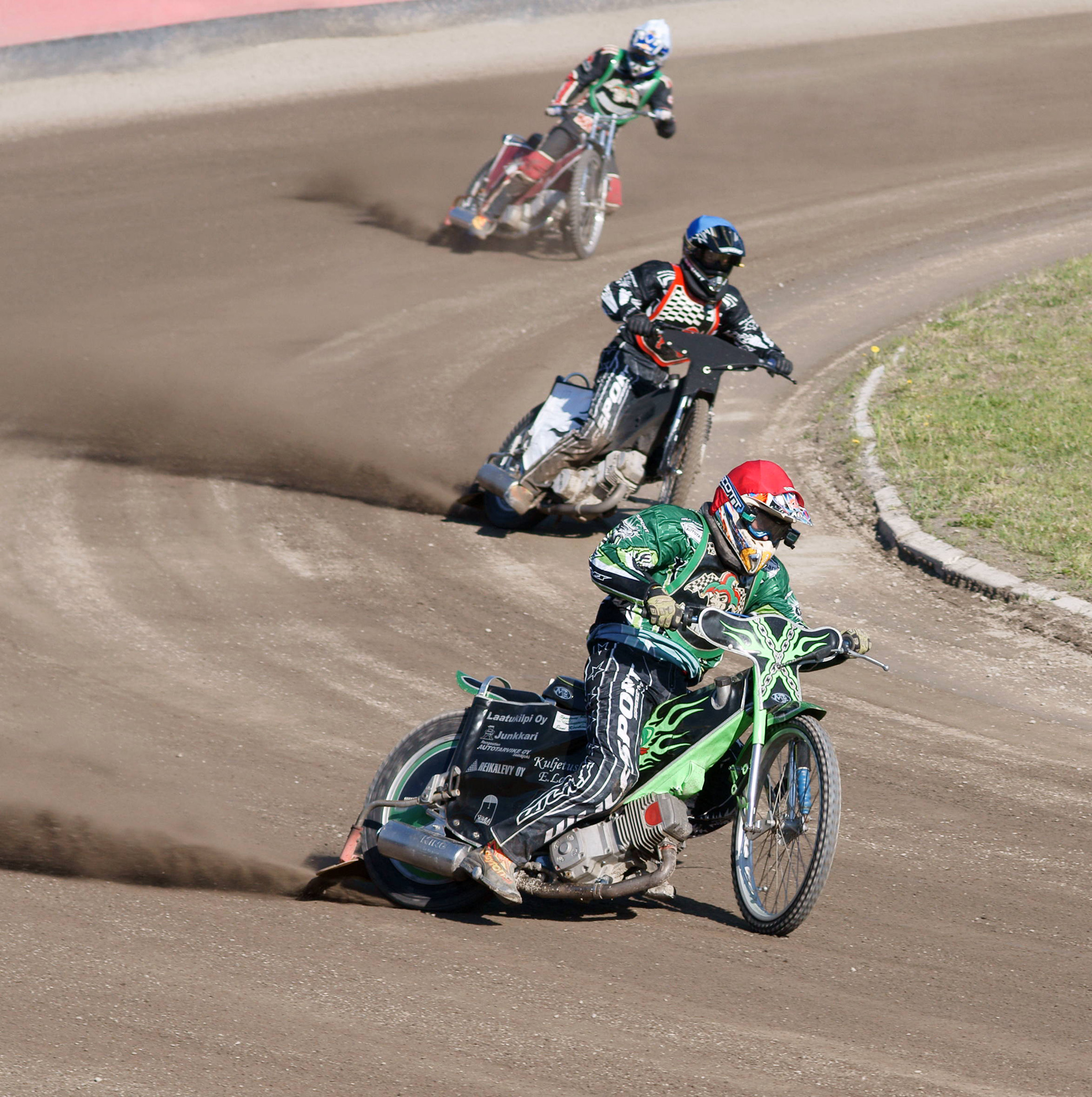 Speedway riders Joni Keskinen (Team Jokerit, Kauhajoki), Marko Suojanen (Team Paholaiset, Pori) and Jiri Nieminen (Team Jokerit) riding in a Speedway Extraliiga competition at the Yyteri speedway, Finland.